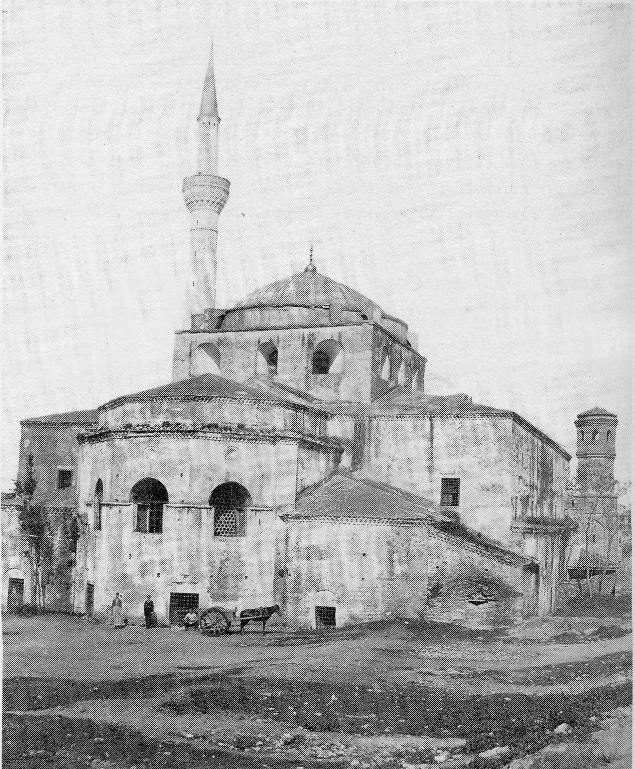 Mosque Aya Sofia of Salonika (Thessaloniki) before the fire of 1890